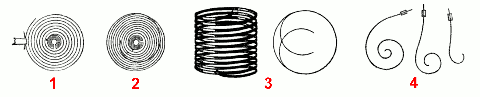 Drawings of different types of watch and chronometer balance springs. Types: (1) flat spiral, including central collet and end stud, (2) Breguet overcoil, (3) chronometer helix, with axial view showing Breguet end curves, (4) early forms. The early springs are from Nelthropp, others are from Britten. Alterations: combined source images into a composite, removed captions and part labels, scaled and rotated Nelthropp image to match others, added new labels in color, converted to PNG.